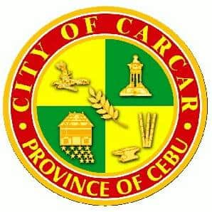 Carcar's official seal